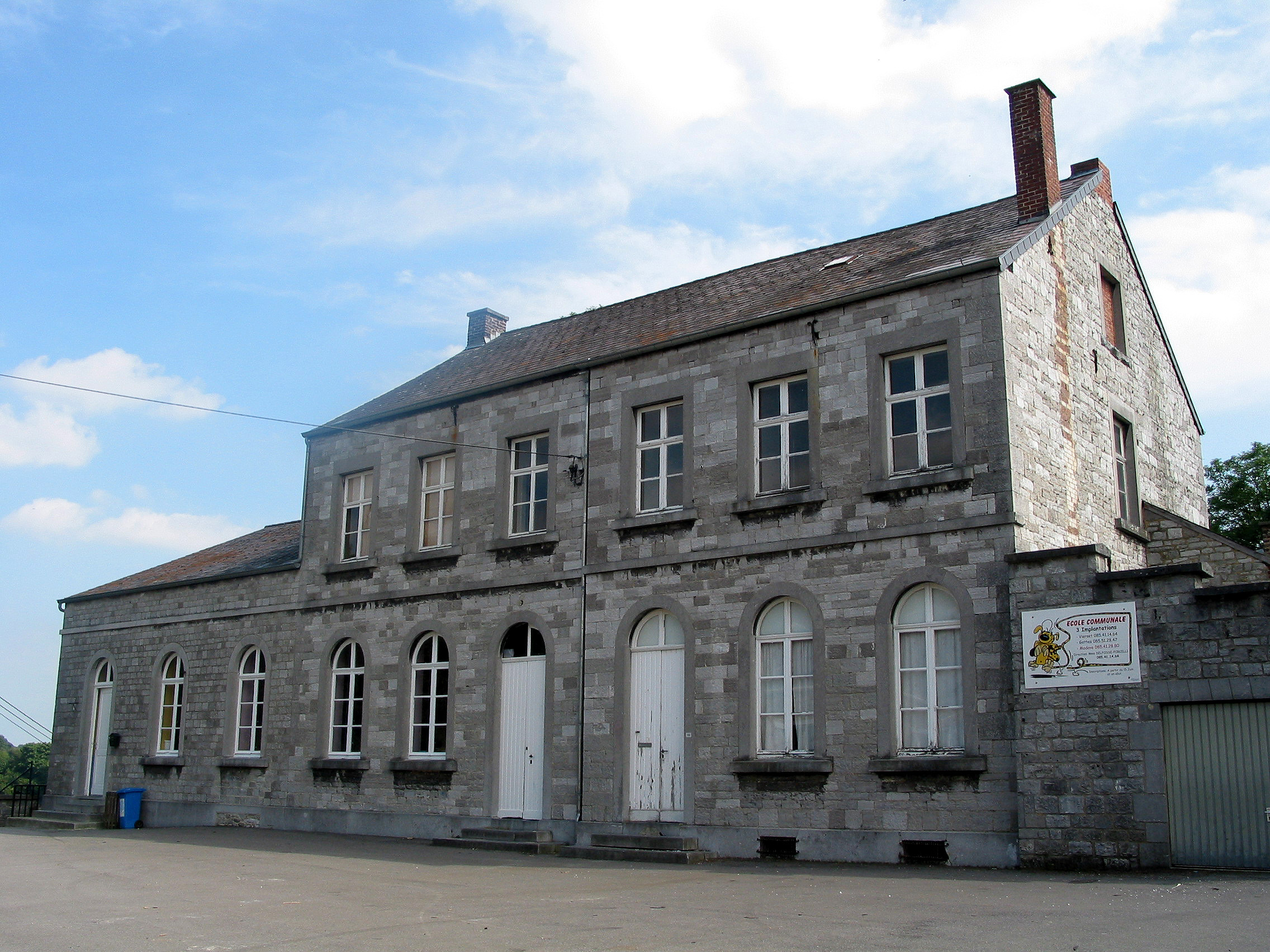 Modave (Belgium), the primary school.